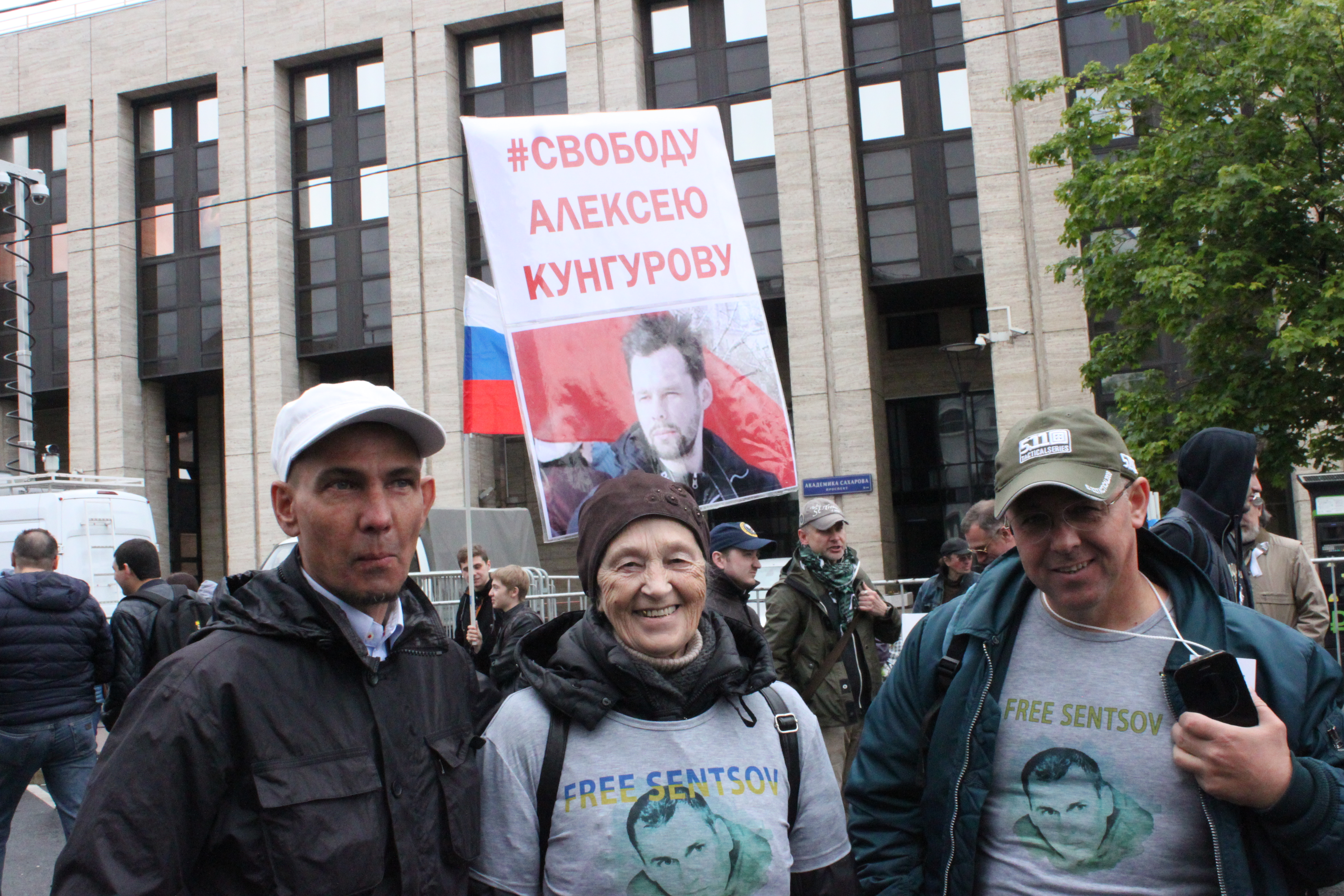 In Moscow on June 10 a rally "For a free Russia without repression and despotism" was held.